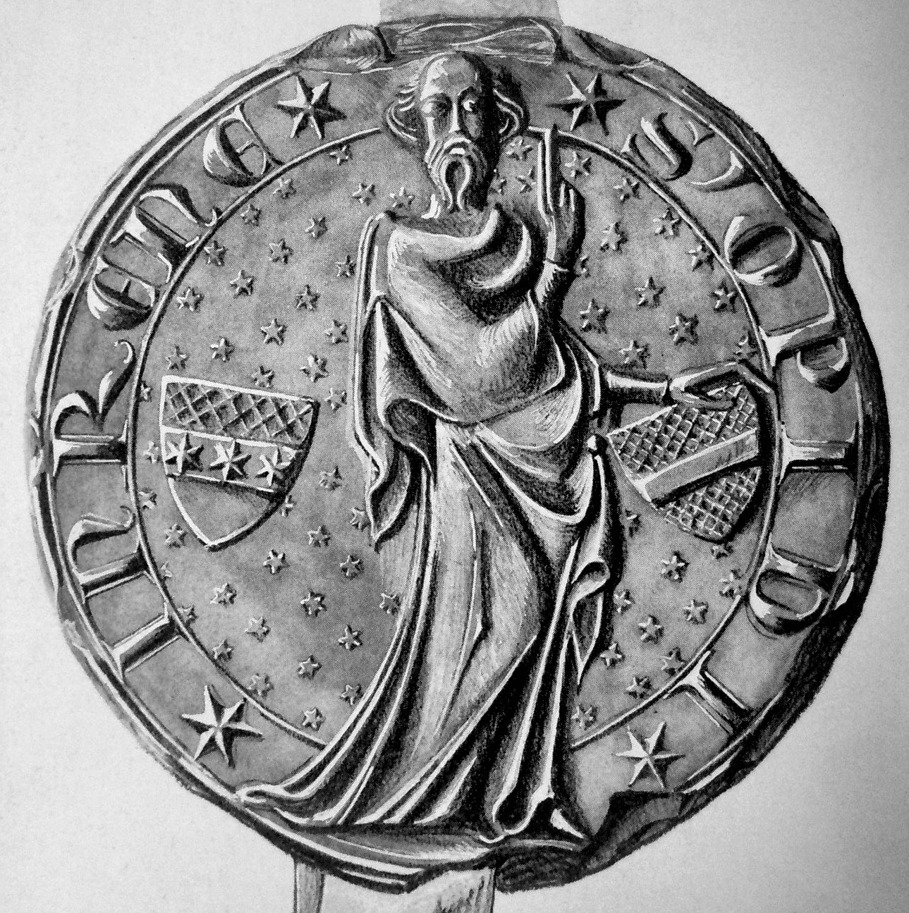 Seal from 1350 of the City of Rheine, Germany